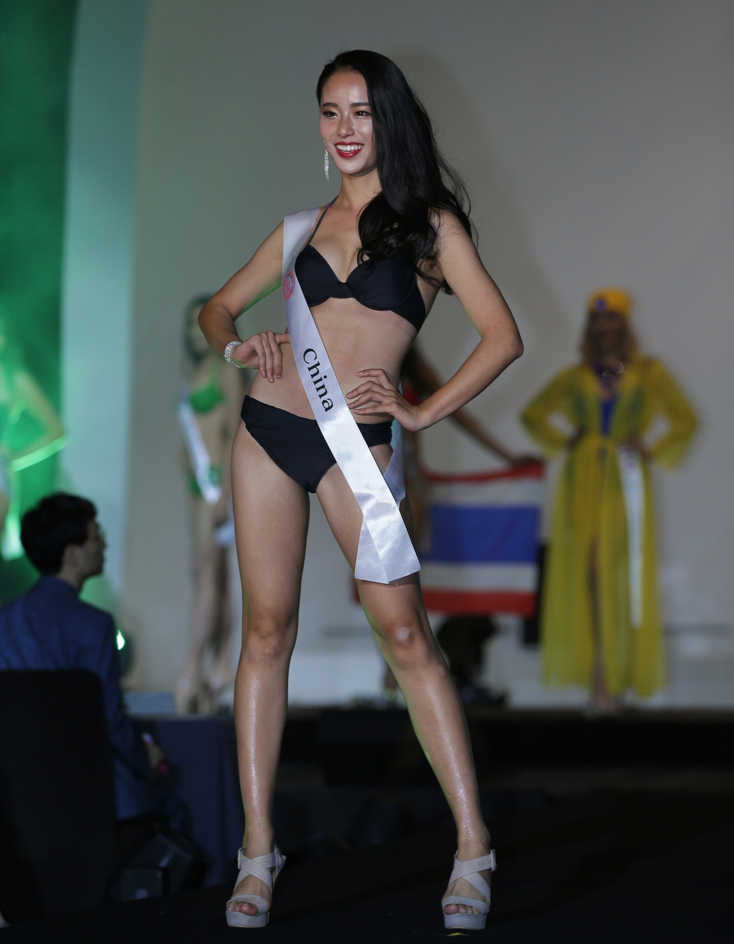 2018 World Beauty Queen